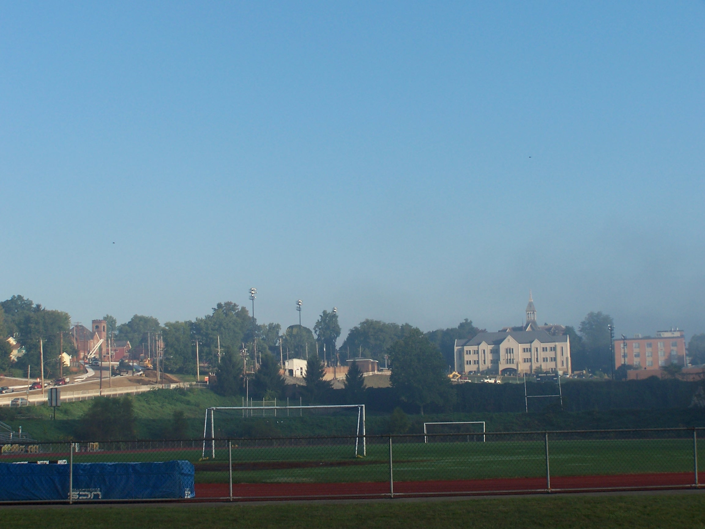 South End View of Geneva College